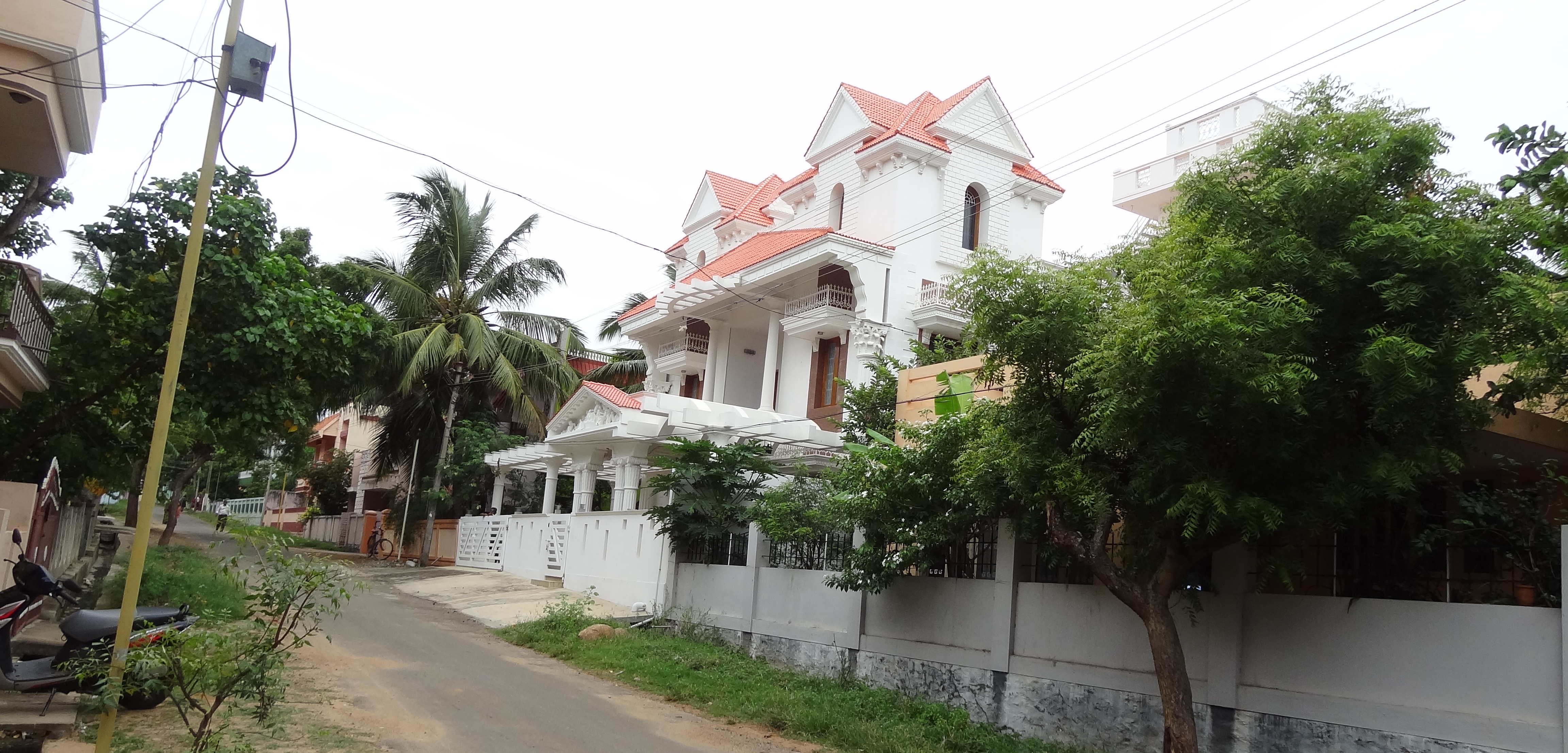 A street view in Christopher Nagar